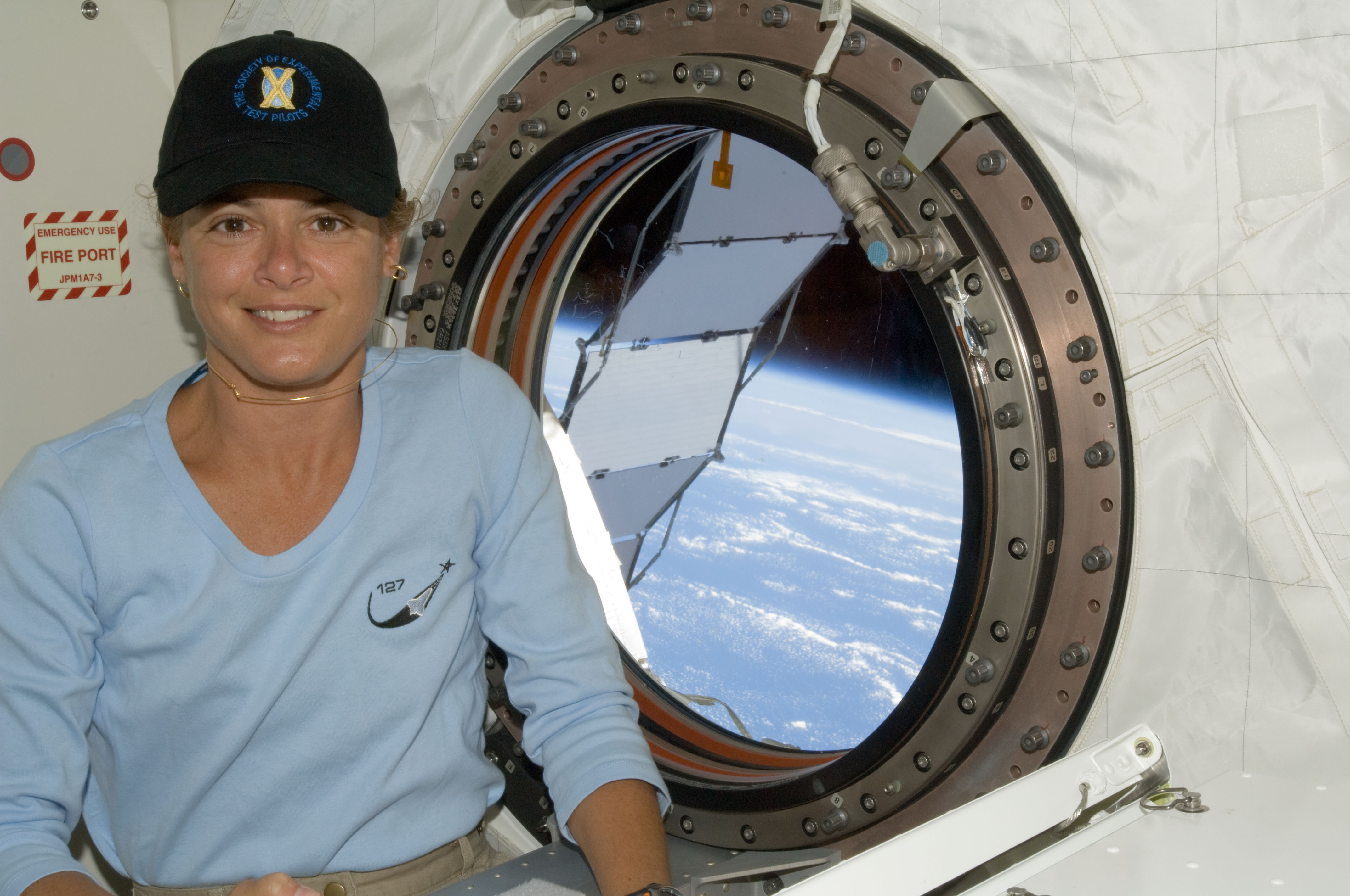 Canadian Space Agency astronaut Julie Payette, STS-127 mission specialist, is pictured near a window in the Kibo laboratory of the International Space Station while Space Shuttle Endeavour remains docked with the station.